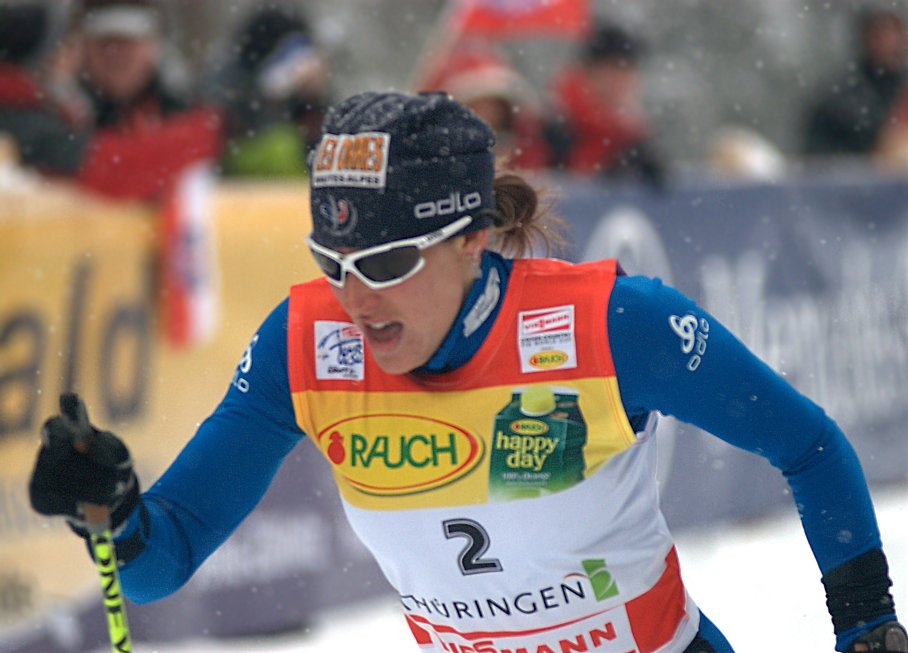 Coraline Hugue at the Tour de Ski 2010 in Oberhof